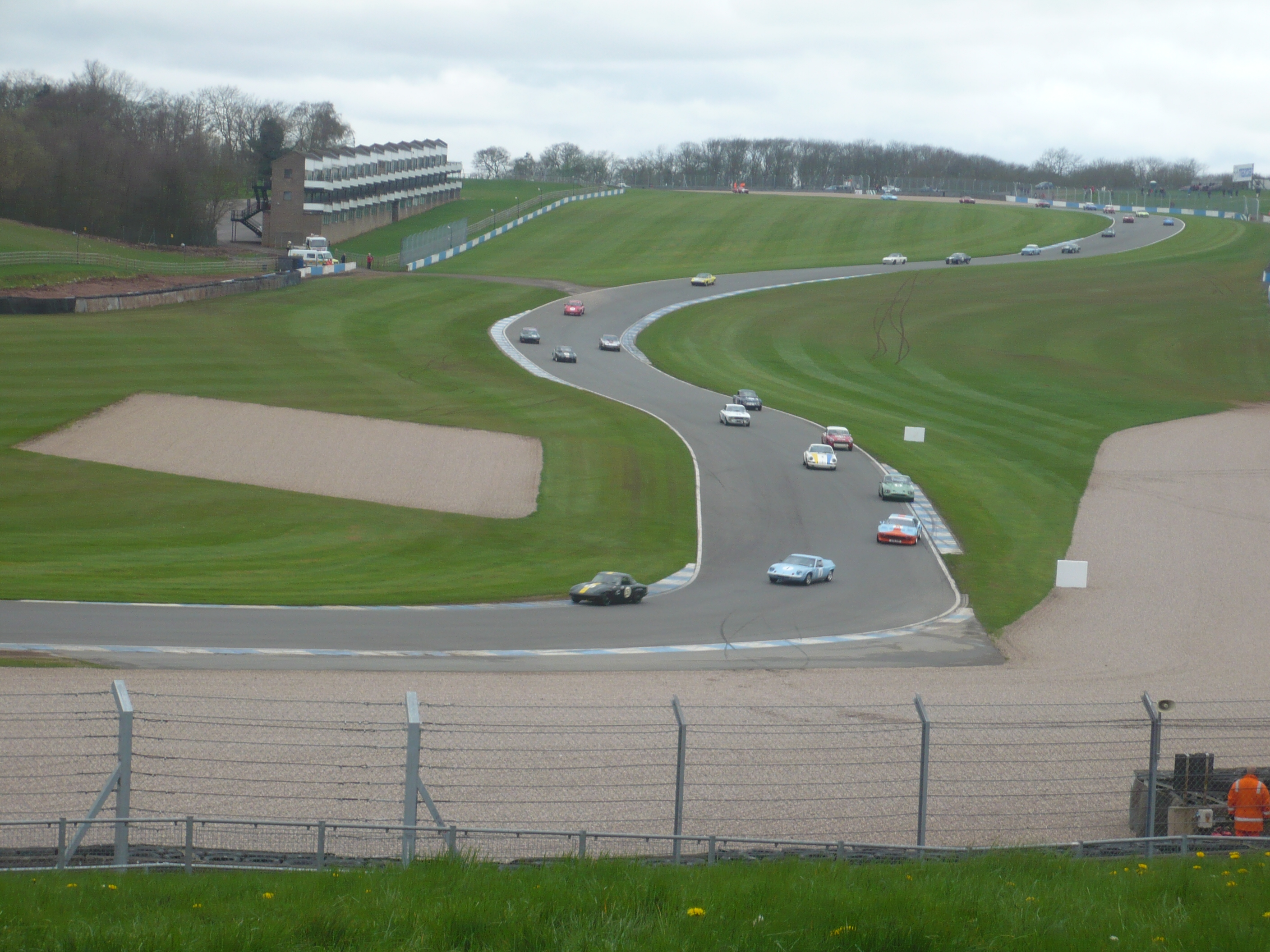 Cars in a historic racing series down the hill at Donington Park circuit, 2014